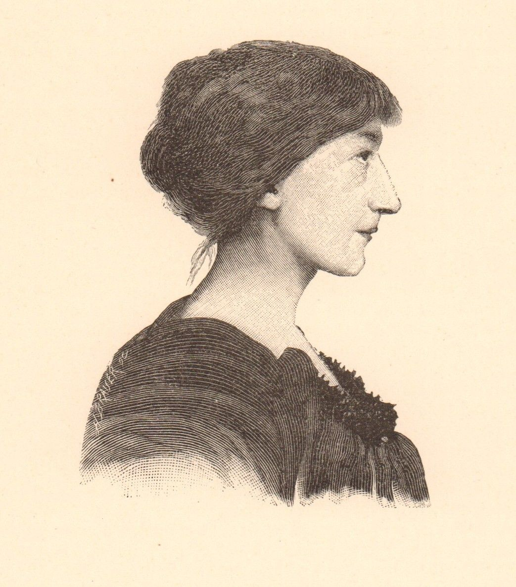 French actress Marguerite Moreno (1871-1948)